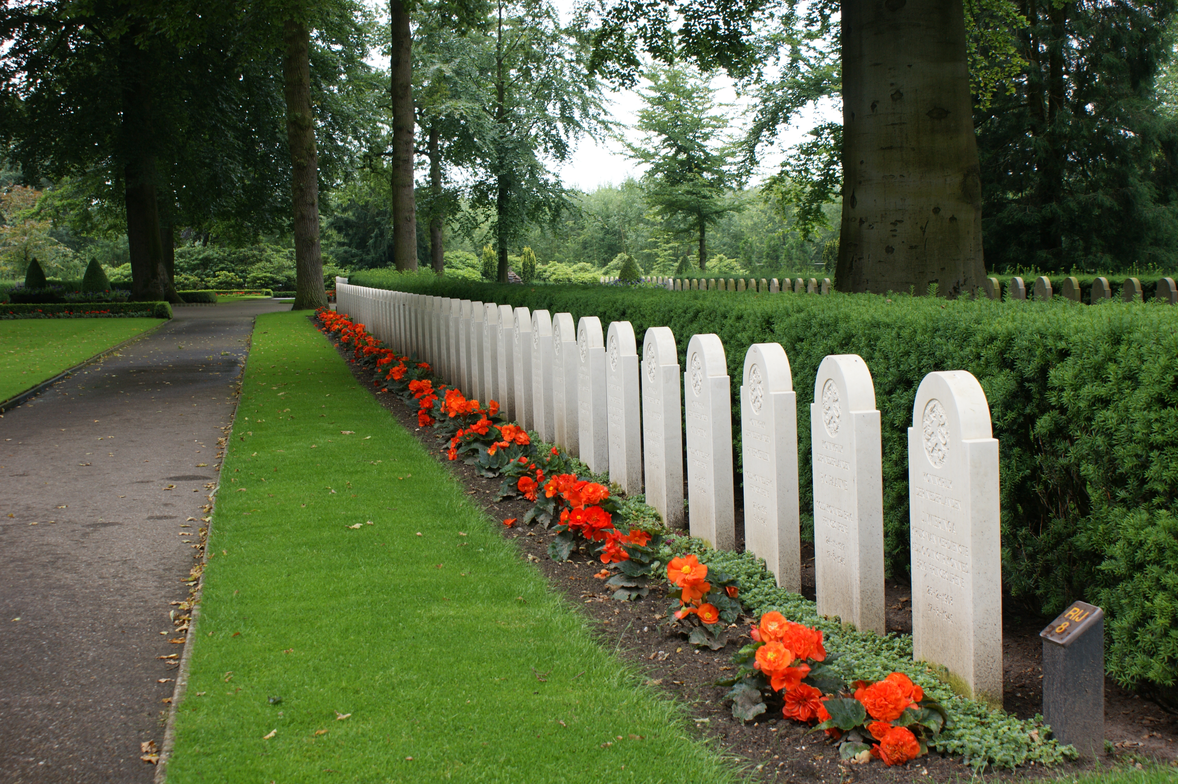 Headstones. Military Cemetery Grebbeberg, Rhenen, The Neetherlands